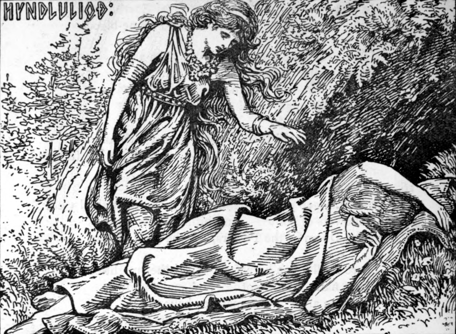 An illustration to Hyndluljóð. The list of illustrations in the front matter of the book gives this one the title Freyja awakes Hyndla.